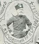 Portrait of IMARO member G. Karchovaliyata from Karchovo